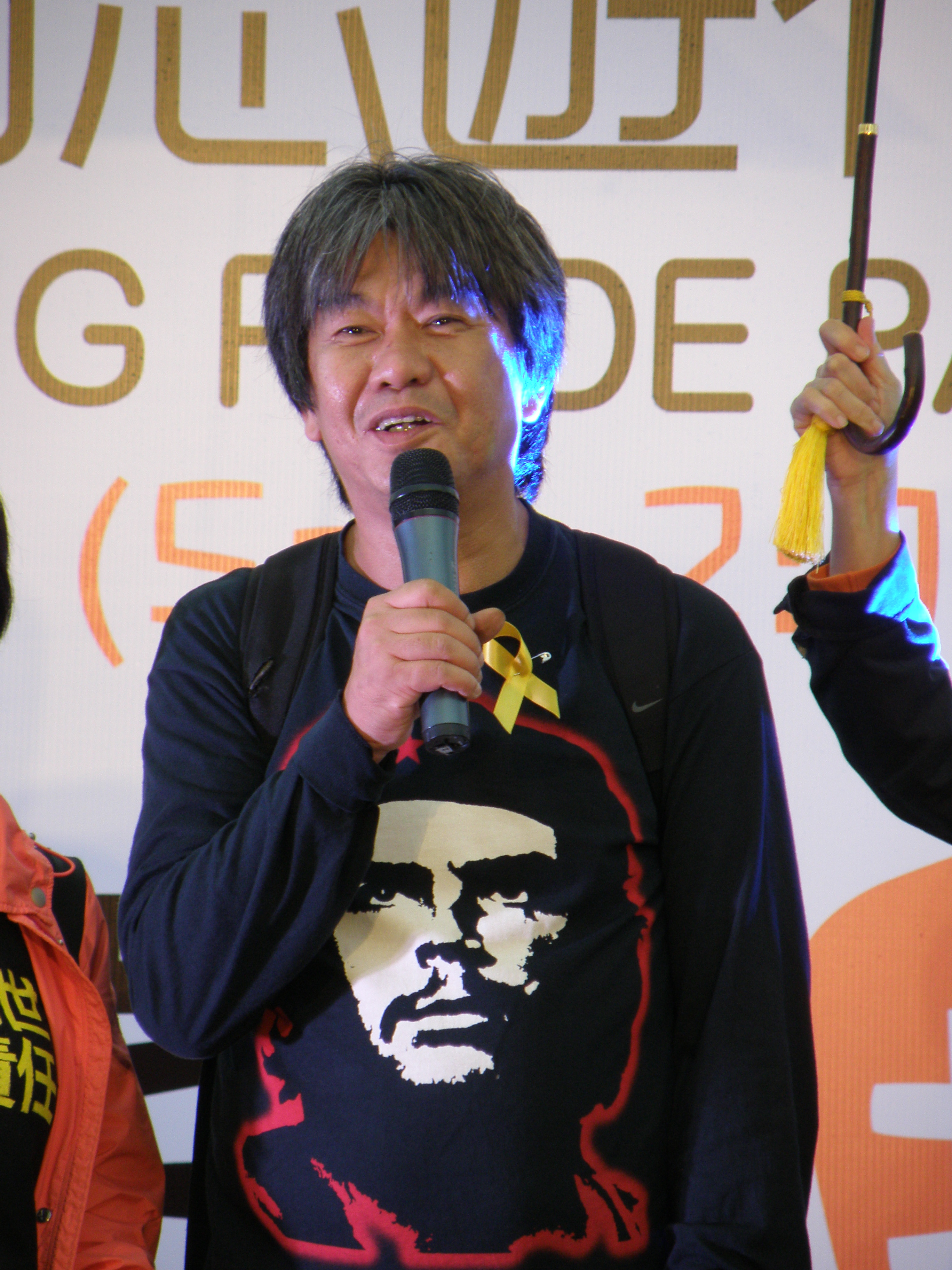 Leung Kwok-hang, members of the Legislative Council of Hong Kong.